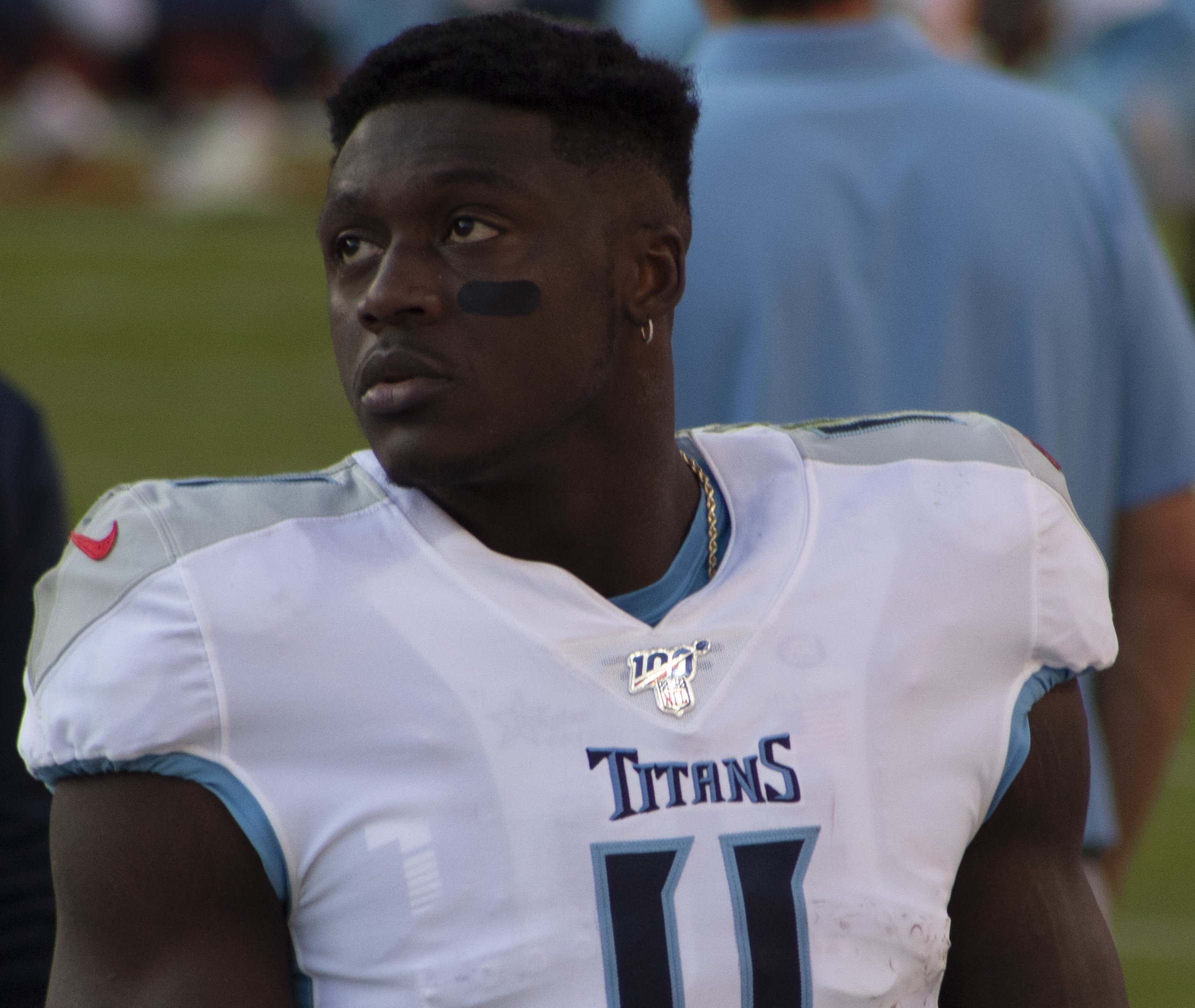 A.J. Brown with the Tennessee Titans on October 13, 2019